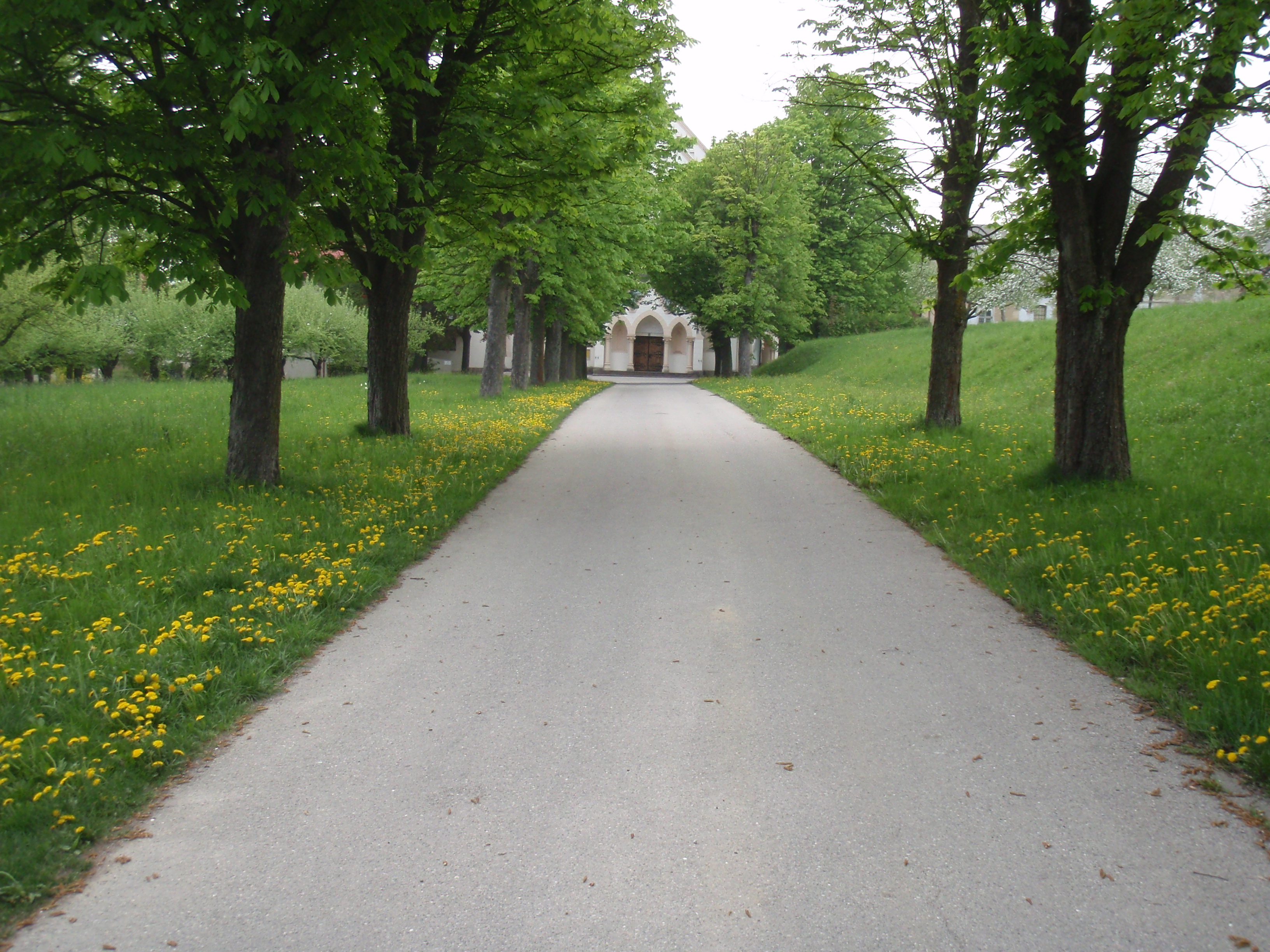 View form Eichgraben to the tree-lined road to the monastery church of the so called Annunziatakloster „Am Stein“ in Maria-Anzbach.